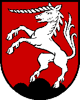 Coat of arms of Perg, Upper Austria, Austria.